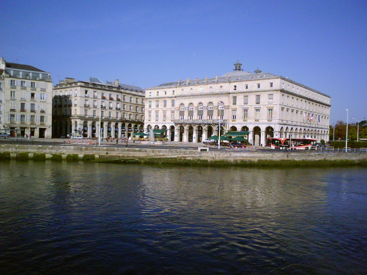 Bayonne City Hall